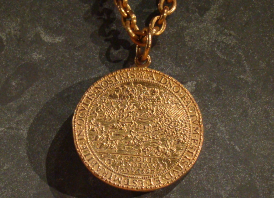 Victory between Meuse, Rhine and Ems overcome cities: Turnhout, Alphen, Rijnberk, Meurs, Bredevoort, Groenlo, Goor, Enschede, Oldenzaal, Ootmarsum and Lingen by Prince Maurice 1597